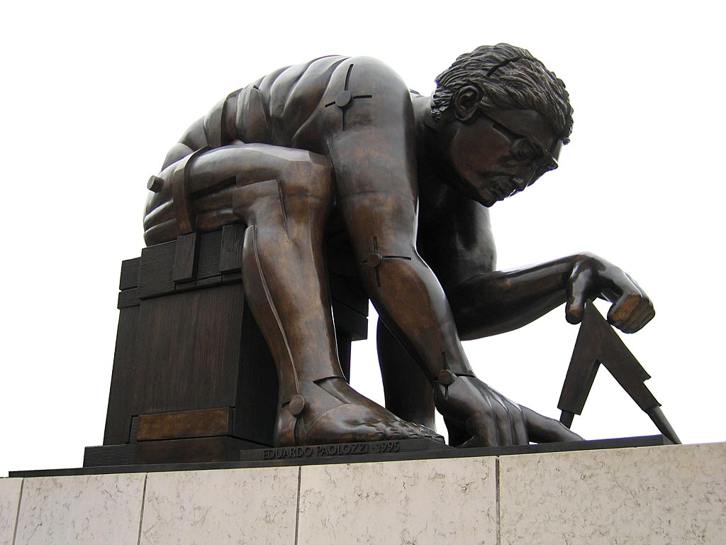 Eduardo Paolozzi's Newton, bronze 1995. Paolozzi's statue in the courtyard of the British Library in London, is not a direct representation of Isaac Newton but rather seeks to capture the idea that with Newton's equations and his laws of motion and gravity, the Universe became a more deterministic and measured place. The statue draws its inspiration from William Blake's Newton.